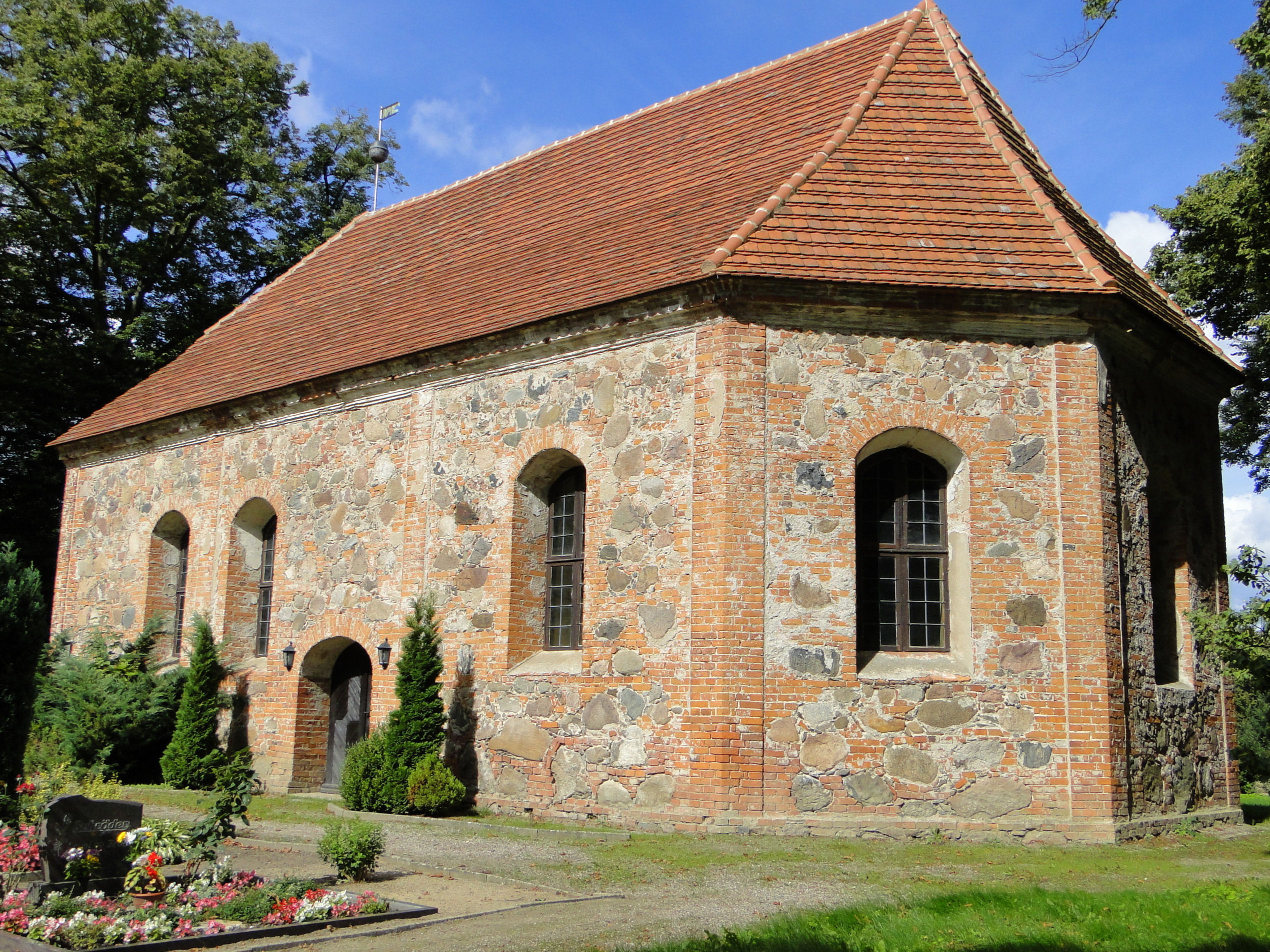 Church in Rumpshagen, district Müritz, Mecklenburg-Vorpommern, Germany